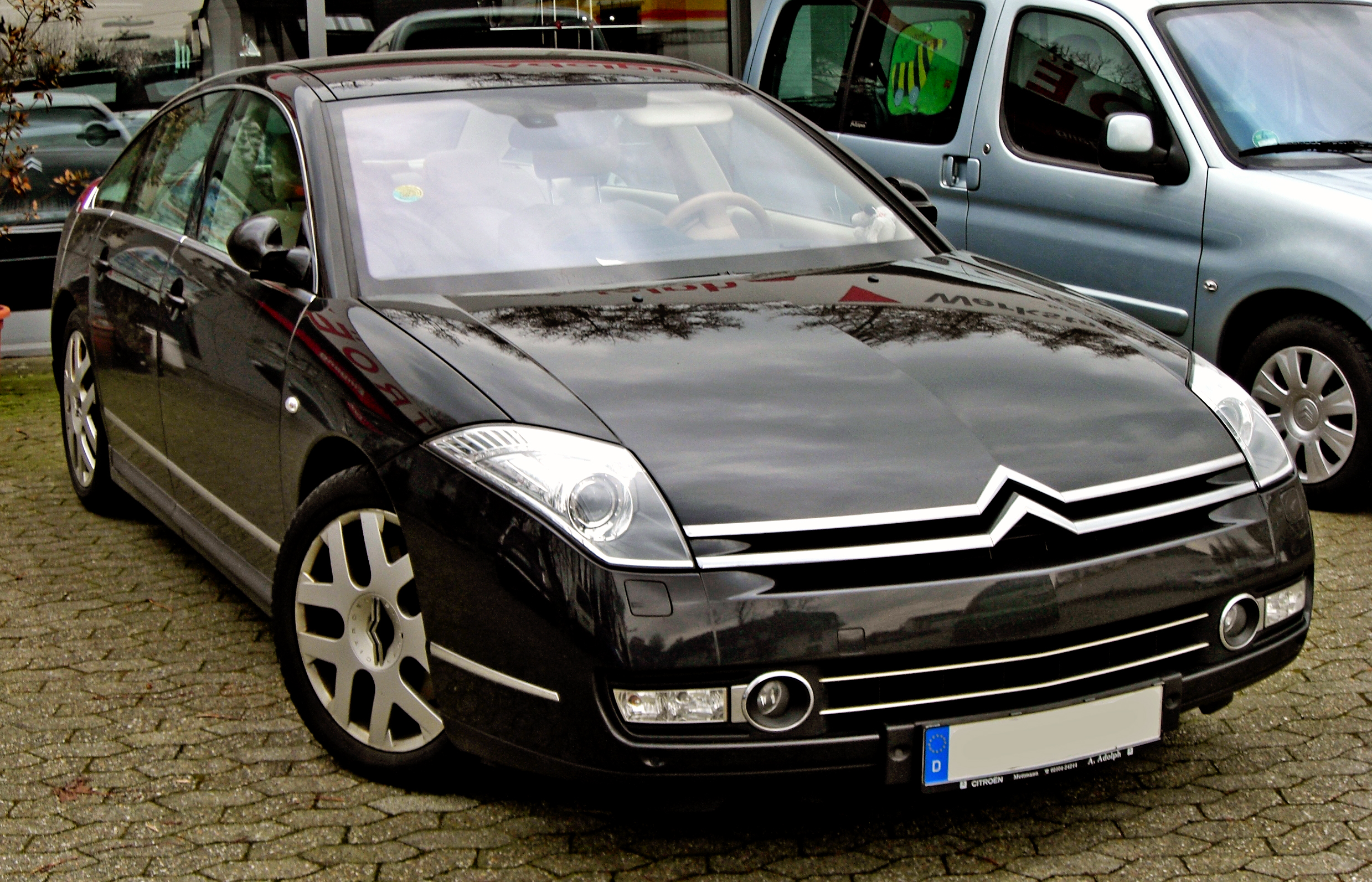 Citroën C6